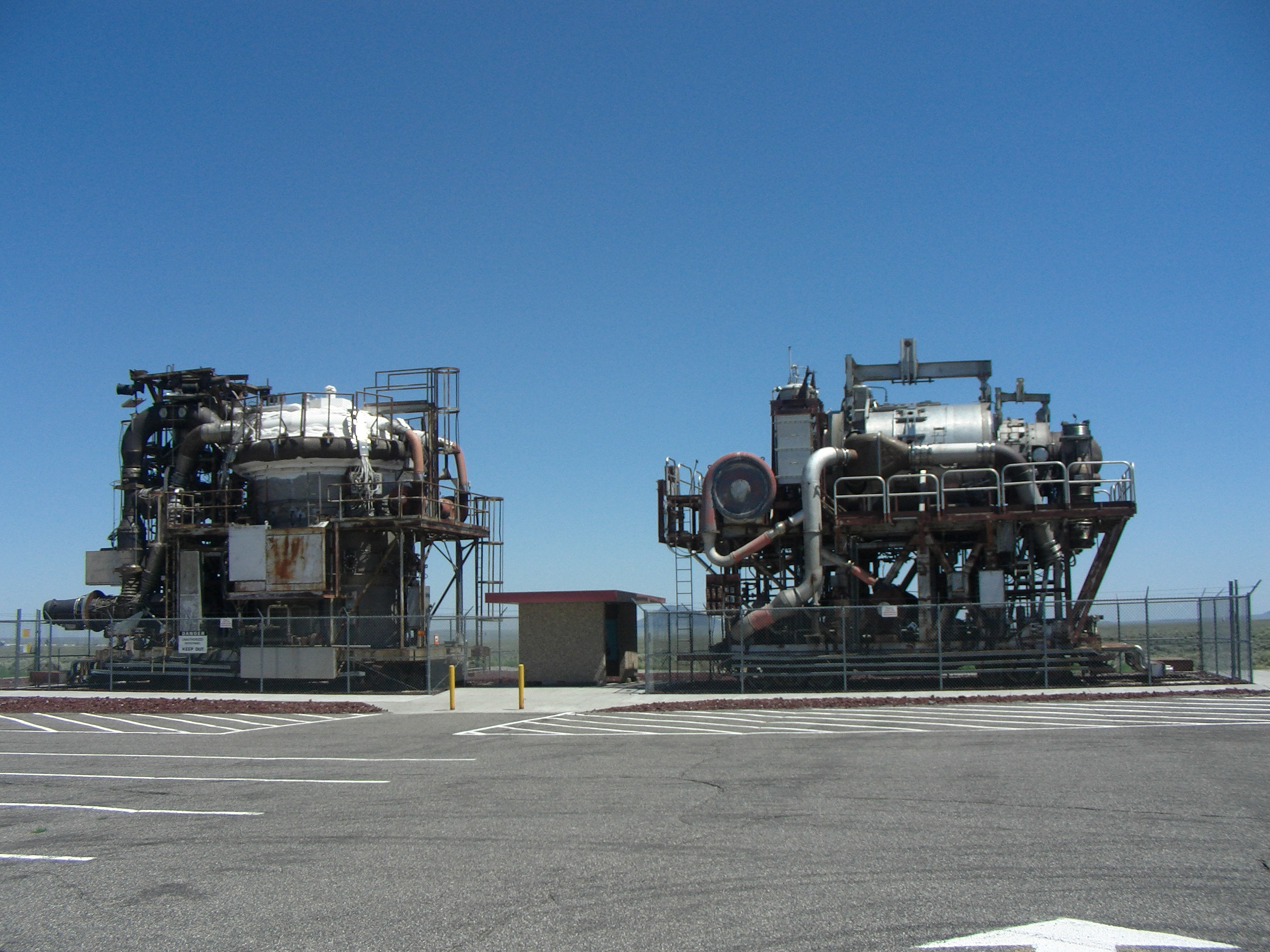 Experimental reactors for development of aircraft propulsion, on display near Arco at the Idaho National Laboratory, taken July 2009.